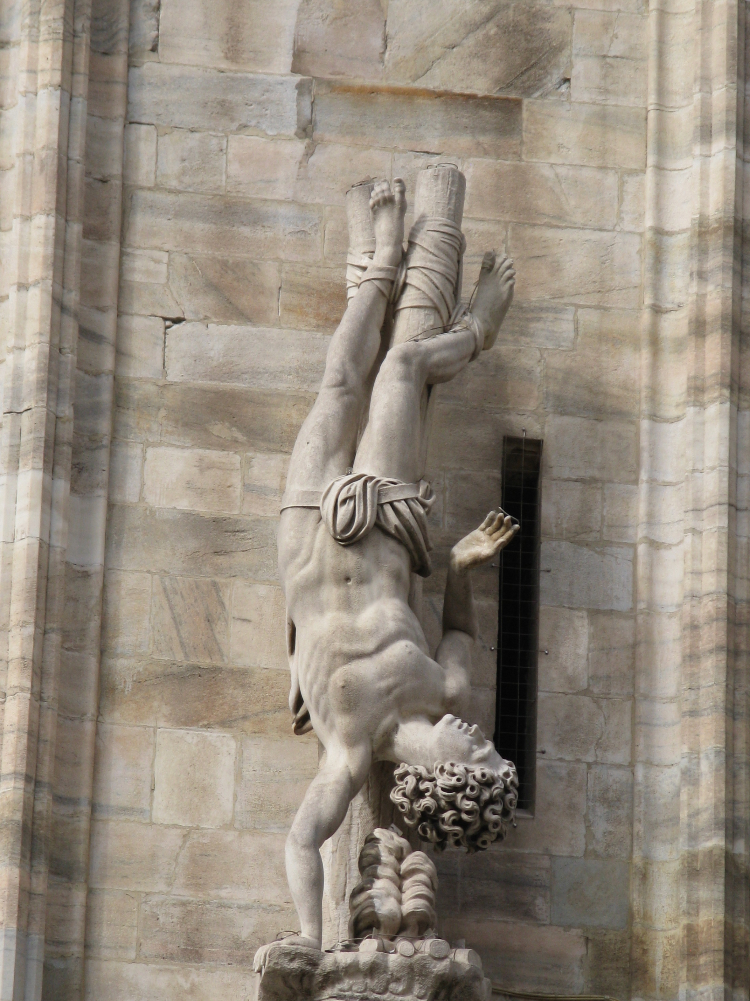 Saint Martyr.